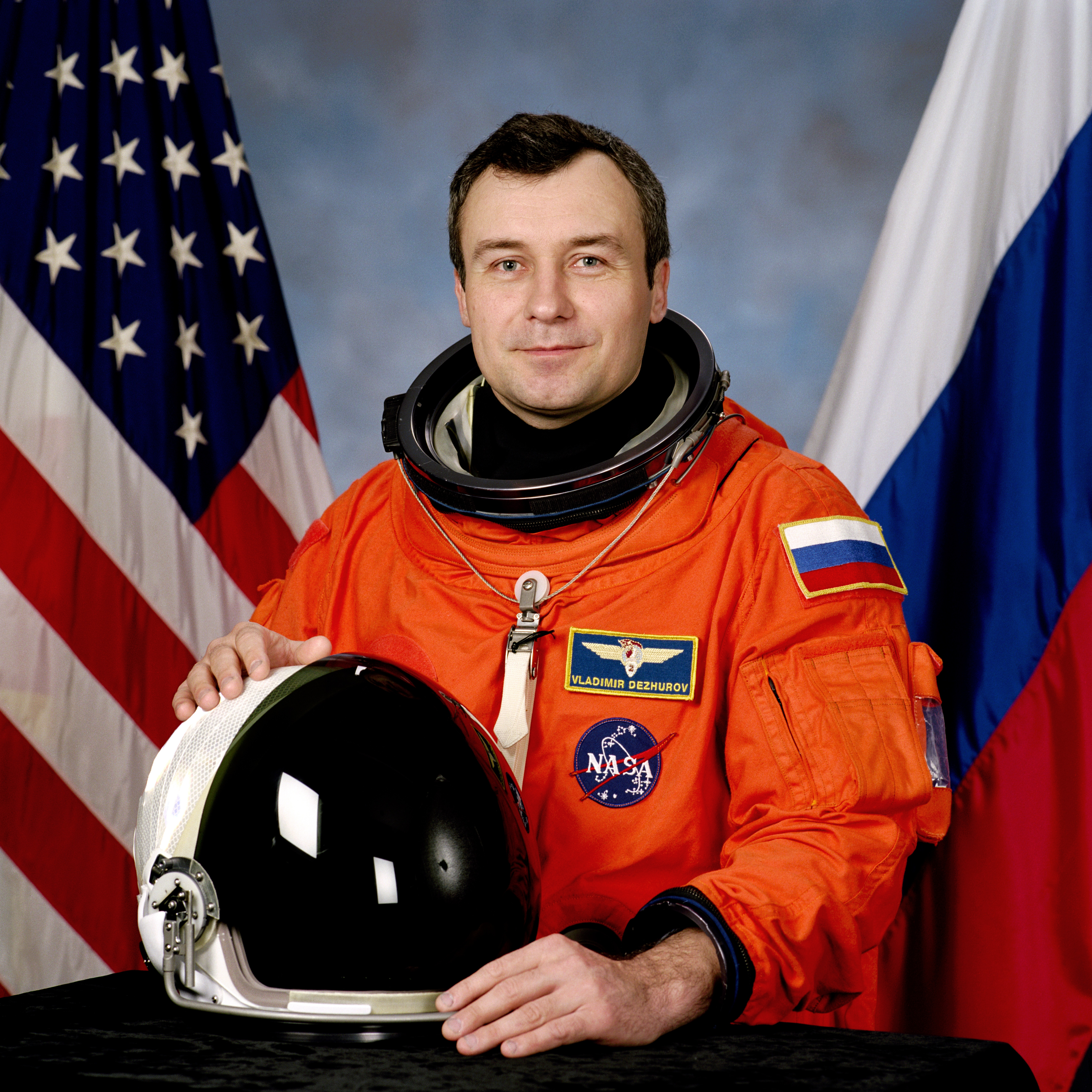 Cosmonaut Vladimir N. Dezhurov, flight engineer, representing Rosaviakosmos